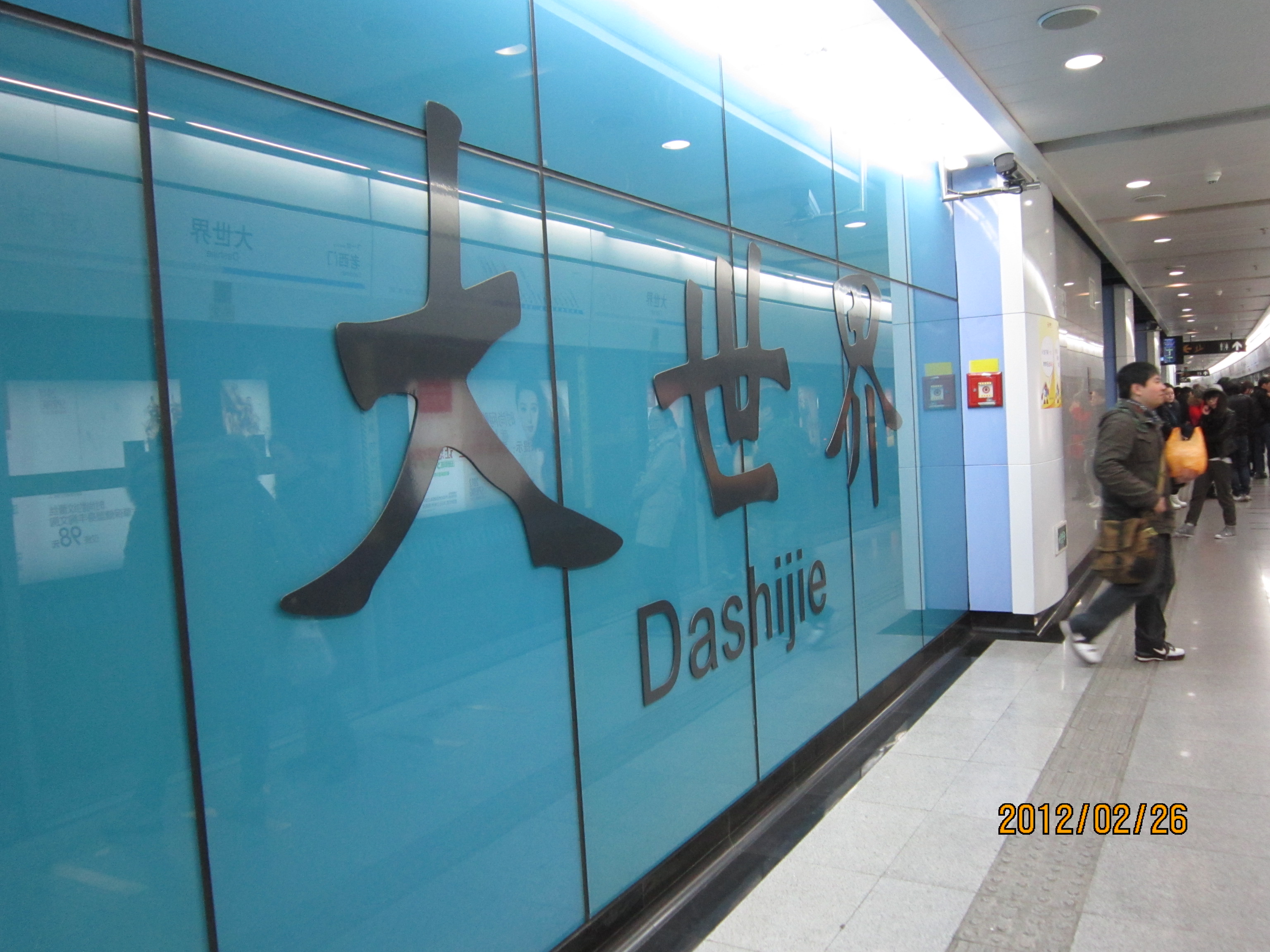 The great-character wall of Dashijie Station of Shanghai Metro Line 8